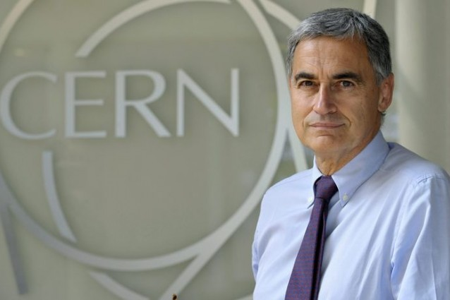 Antonio Ereditato, physicist from Italy